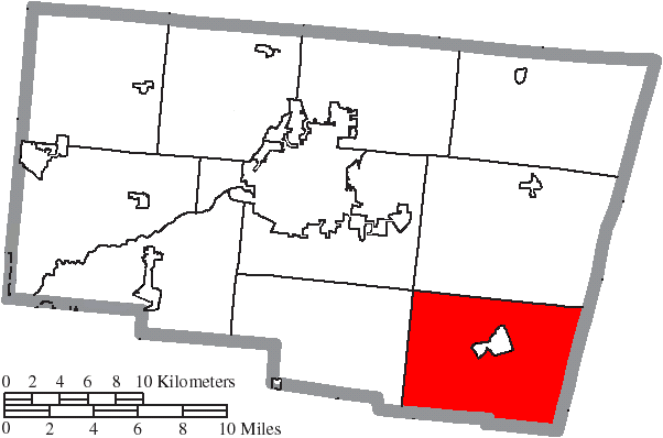 Map of the municipal and township boundaries of Clark County, Ohio, United States, as of the 2000 census, with the location of Madison Township highlighted. Township borders are shown only in unincorporated areas in order to differentiate incorporated and unincorporated areas more clearly.